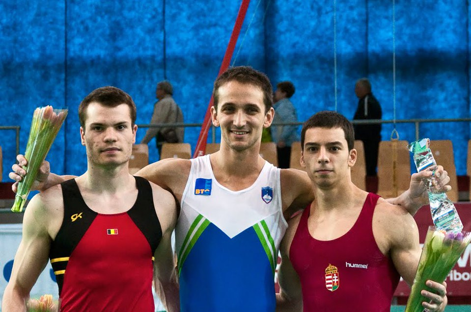 43. Šalamunov memorial in Maribor